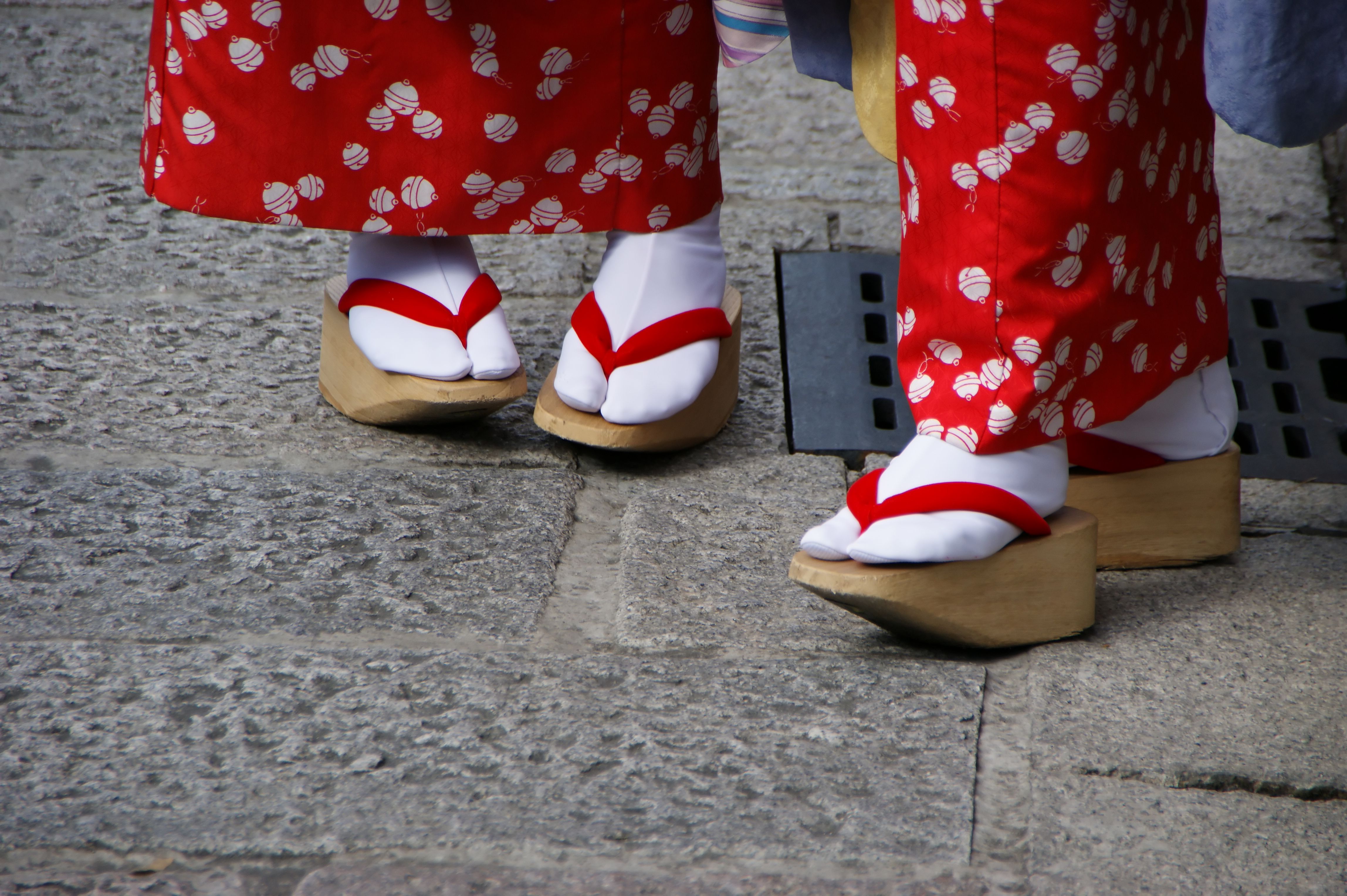 Red underkimono “nagajuban” and maiko footwear, “okobo”